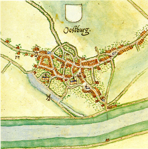 Map of the city of Oostburg